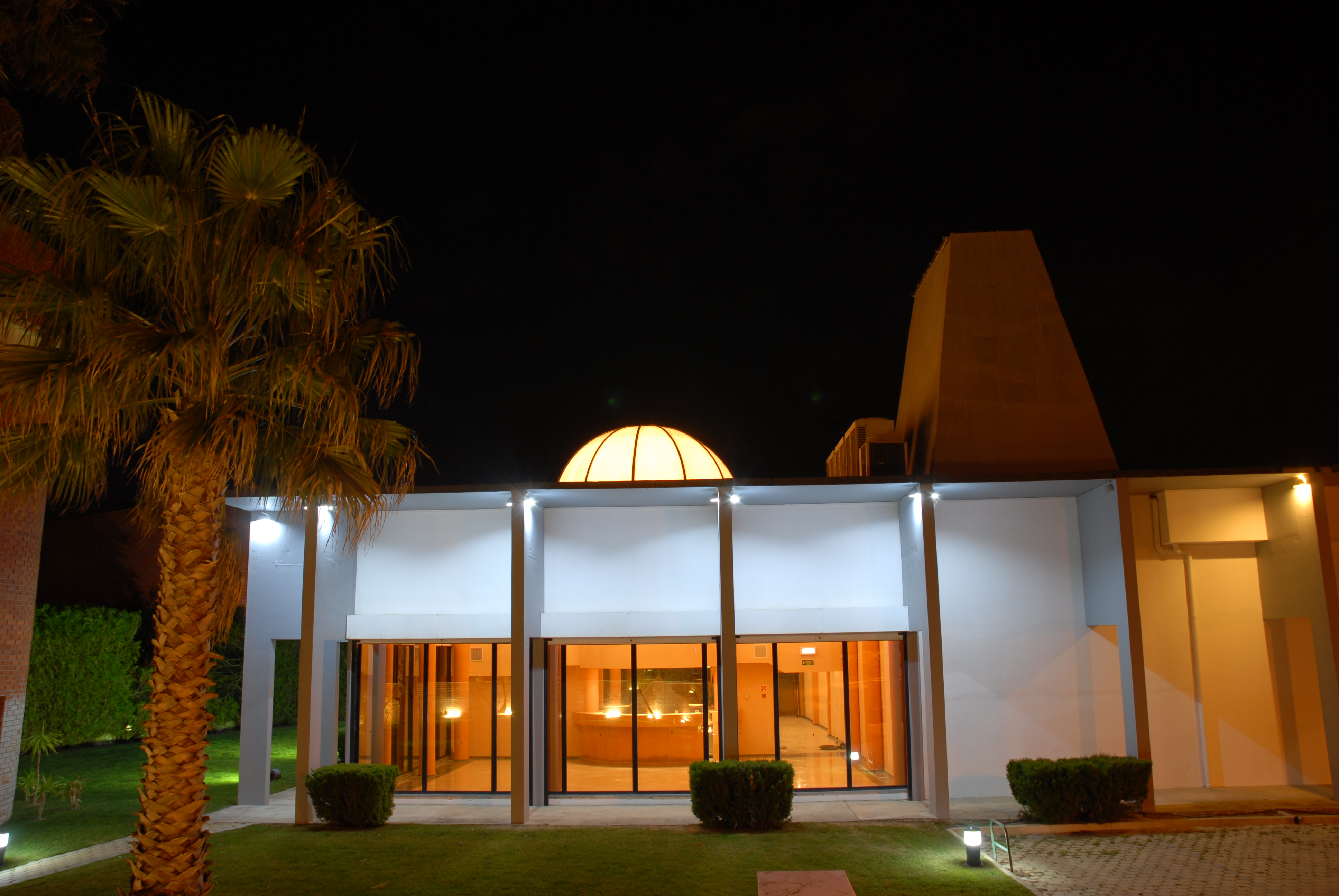 Quinta das Cruzadas Restaurante at Night